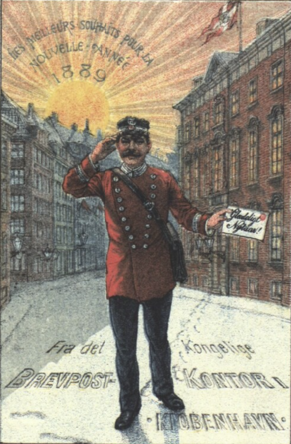 Købmagergades Postkontor, 1888